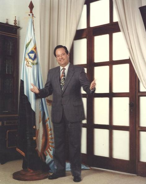 Oswaldo Álvarez Paz is a Venezuelan politician. He became the first Governor of the State of Zulia to be elected by the people, being re-elected for a second period in December 1992.